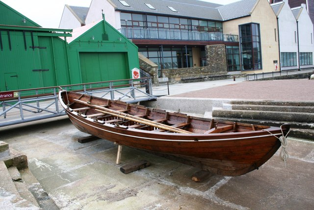 Museum Sixareen A restored Shetland Sixareen on display outside the Lerwick Museum.